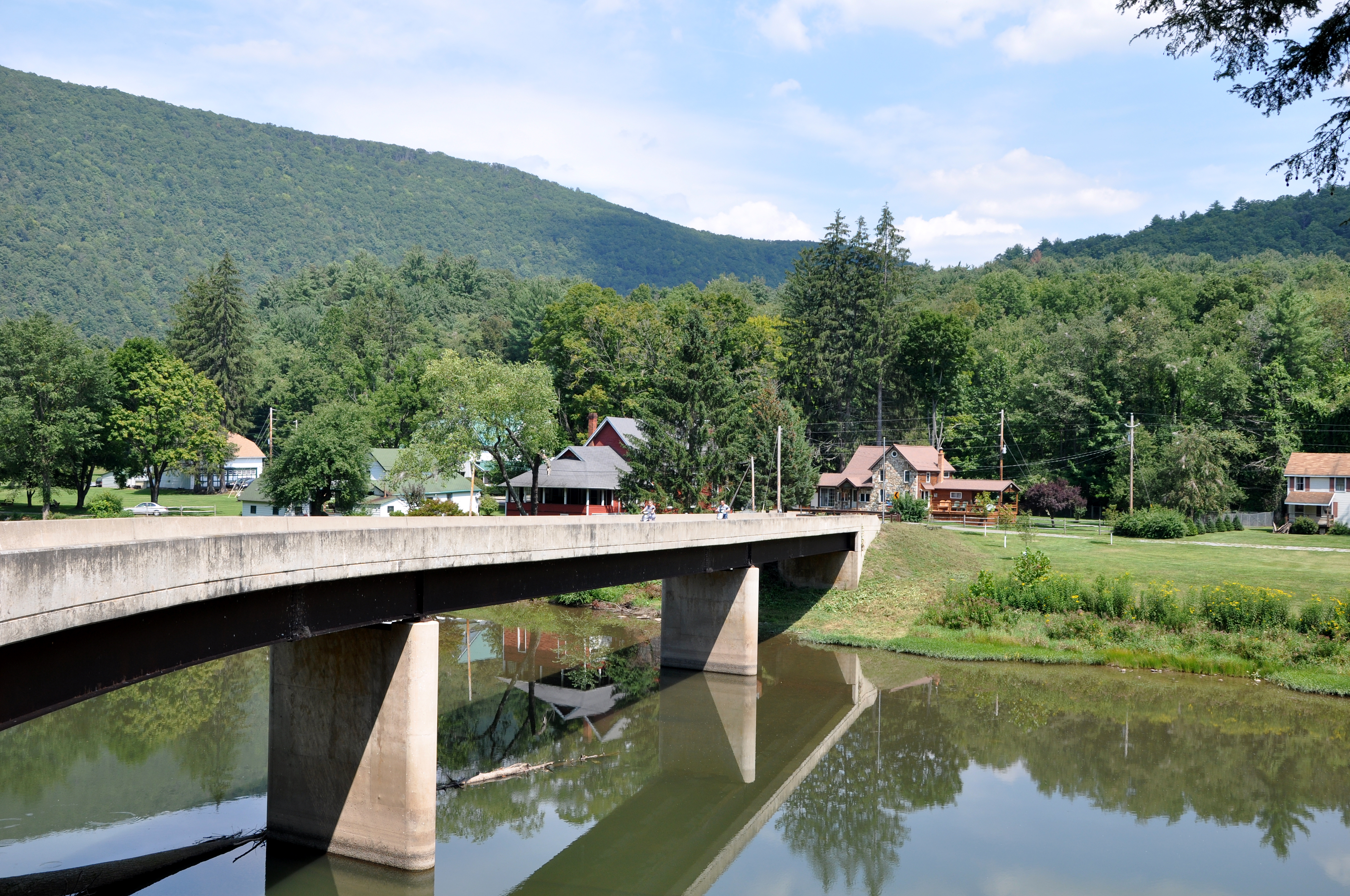 The small community of Cedar Run in the U.S. state of Pennsylvania lies along Pine Creek.